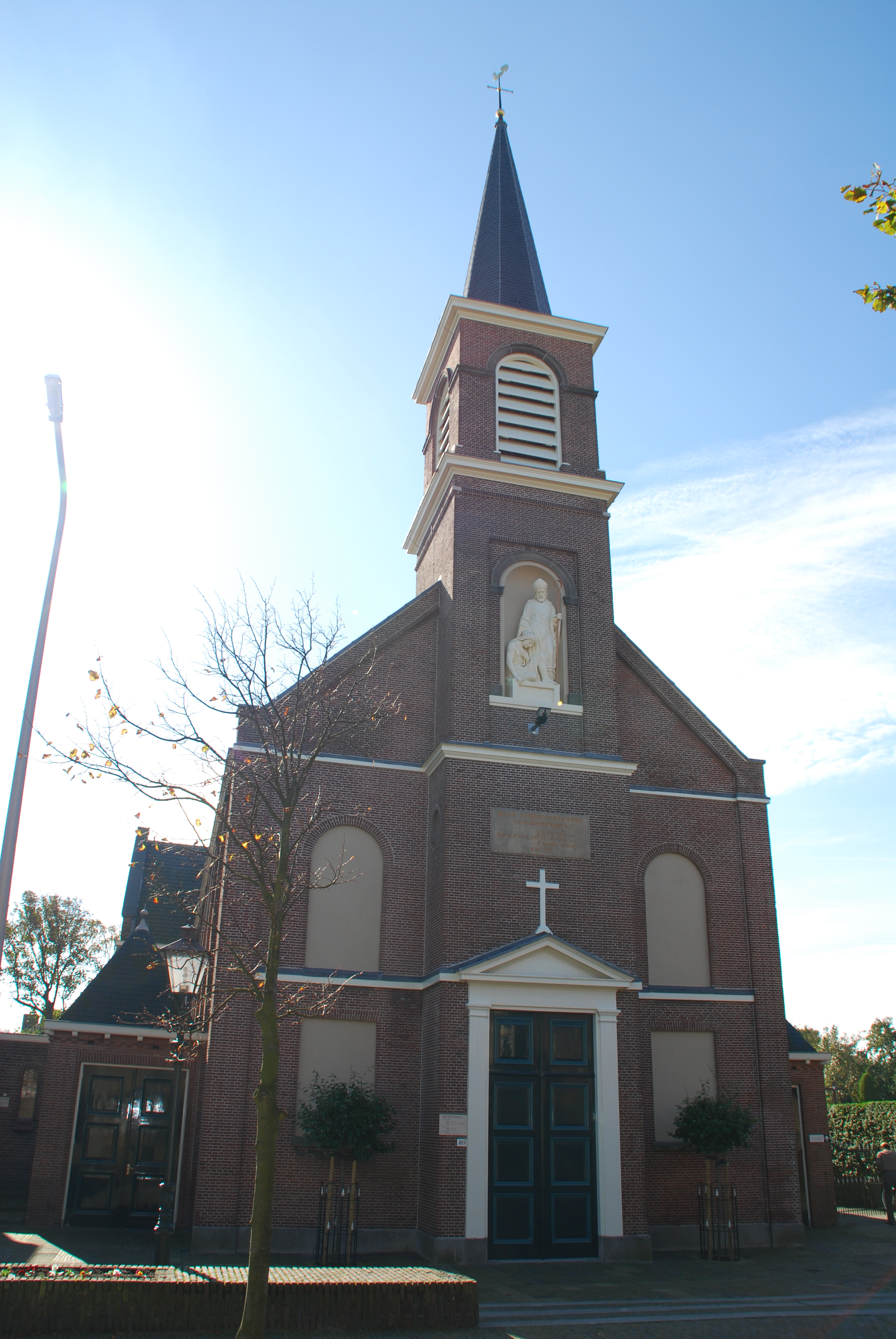 Machuteskerk Monster (Westland), the Netherlands.